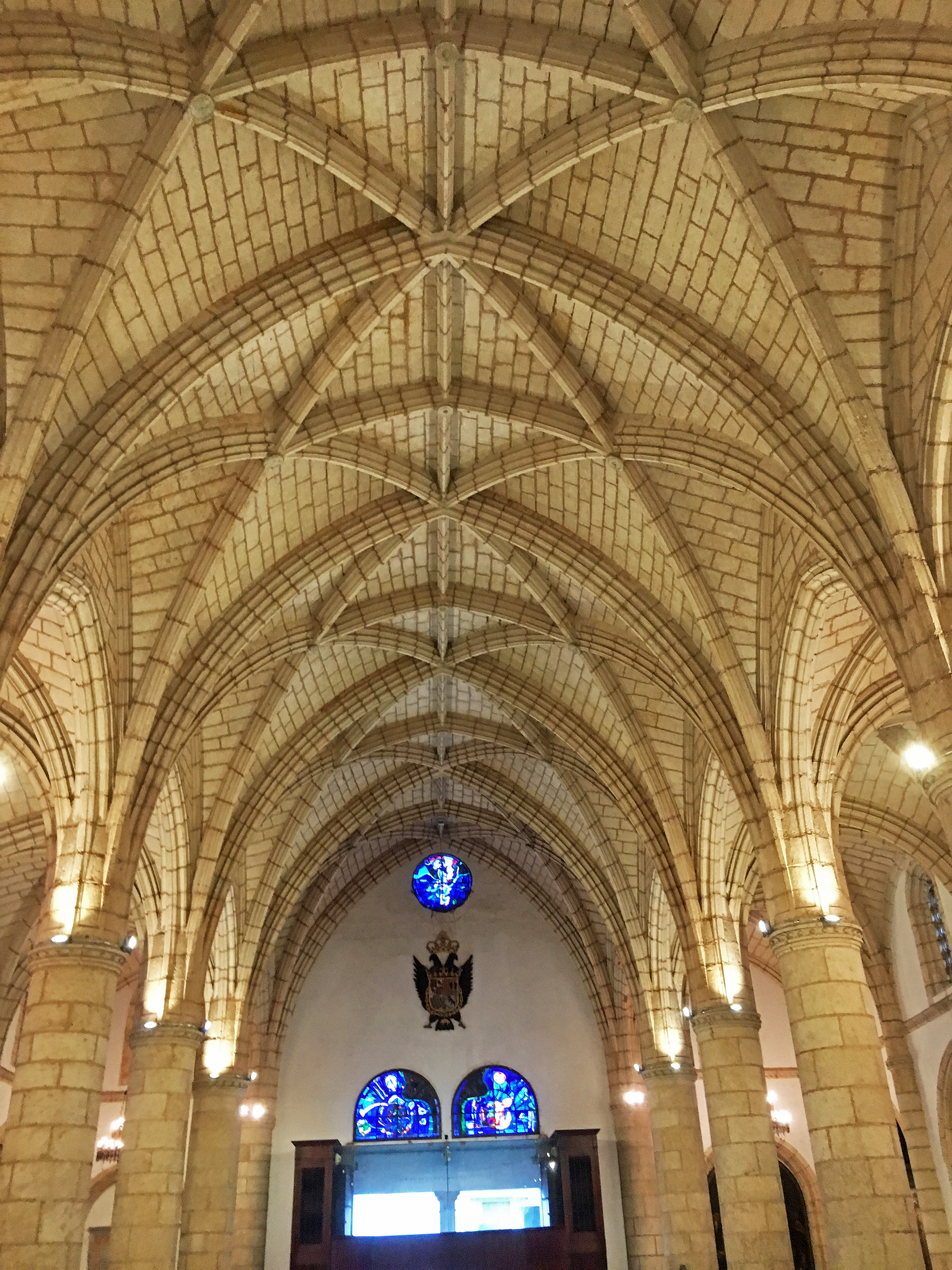 Gothic rib vault ceiling structure in the central nave, looking west, Catedral Primada of the Americas, Ciudad Colonial Santo Domingo. Dominican Republic.